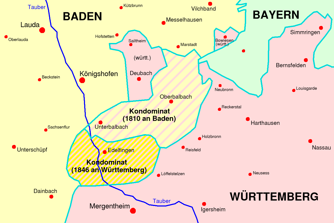 Effects of the 1846 border treaty between the German states of Baden and Württemberg near Edelfingen